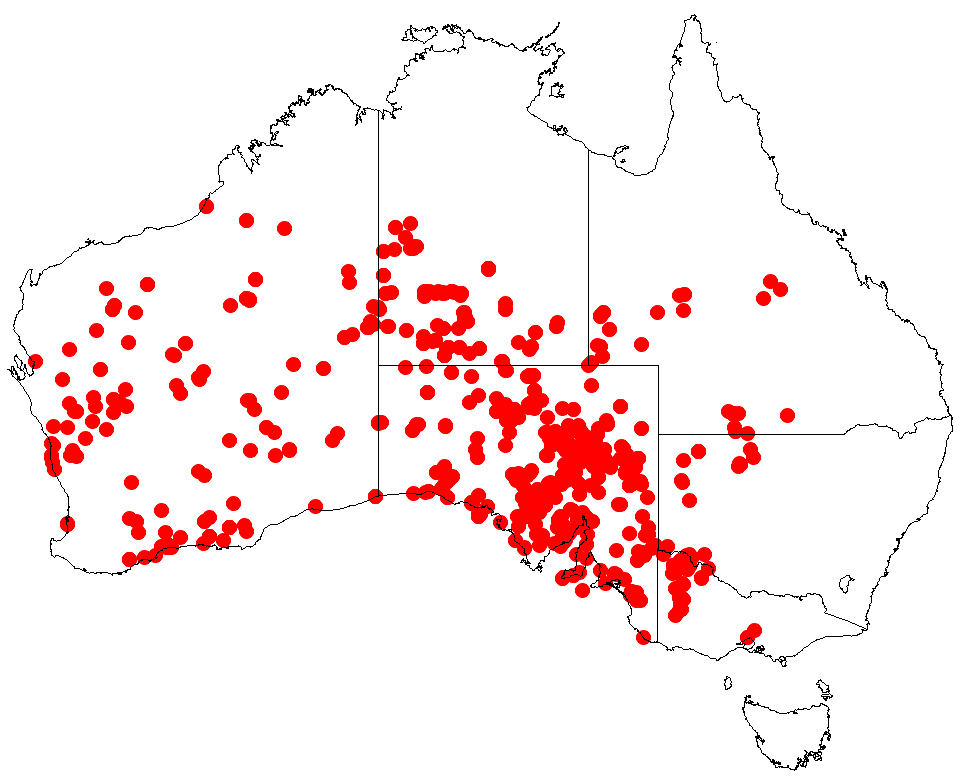 Lawrencia glomerata occurrence records downloaded from Australasian Virtual Herbarium, on 22 May 2018